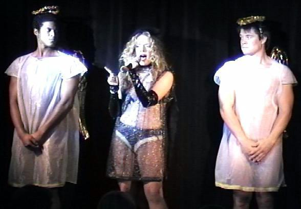 Joseph Tekie, an anonymous vocalist and Thord Johansson do "I'm No Angel" in cabaret A Little Tribute Westward, as released by image creator CabarEngPlace: Wallmans Salonger, Teatergatan 3, Stockholm, Sweden